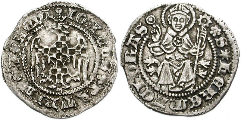 Giovanni V di Moravia. Patriarch, 1387-1394. AR Denaro (19mm, 0.84 g, 1h). Crowned eagle facing, head left, with wings displayed / St. Hermagoras seated facing on lion-headed chair, wearing episcopal raiment, raising hand in benediction and holding star-tipped scepter